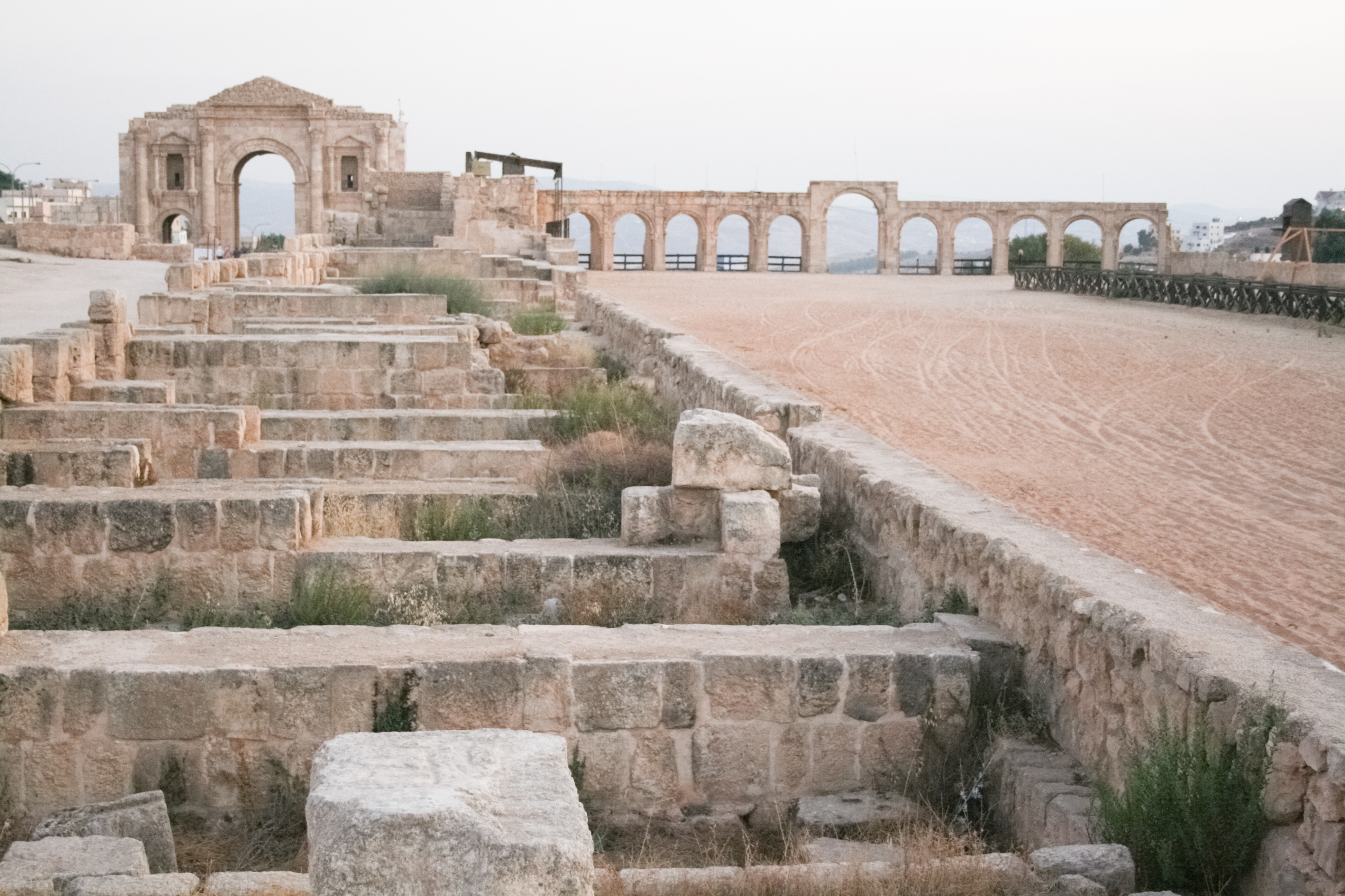 Hippodrome, Jerash, Jordan